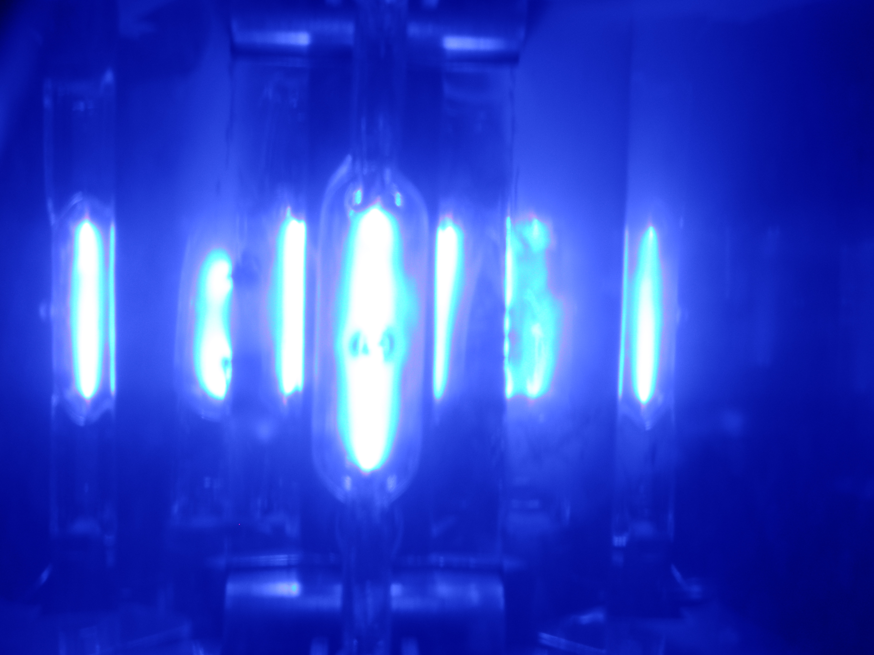 A tanning lamp turned on